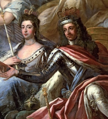 Ceiling of the Painted Hall, detail of King William III